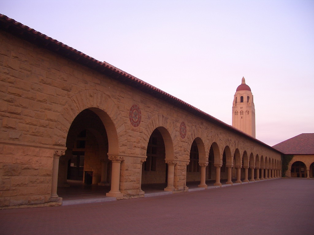 Stanford University - Hoover Tower